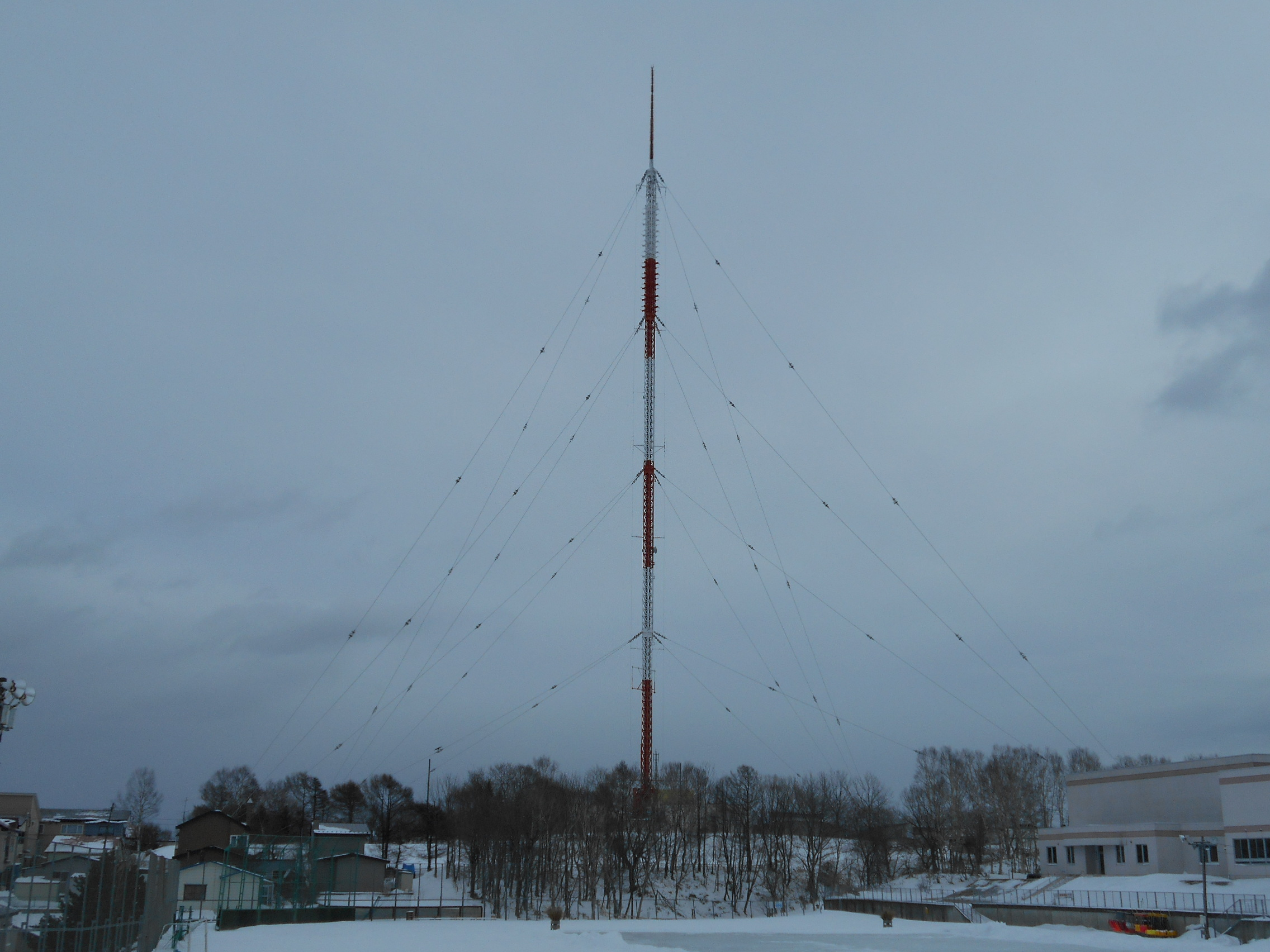 NHK Midorigaoka Radio Transmitting Station in Kushiro city, Hokkaido NHK Radio 1:JOPG 585kHz 10kW NHK Radio 2:JOPC 1152kHz 10kW